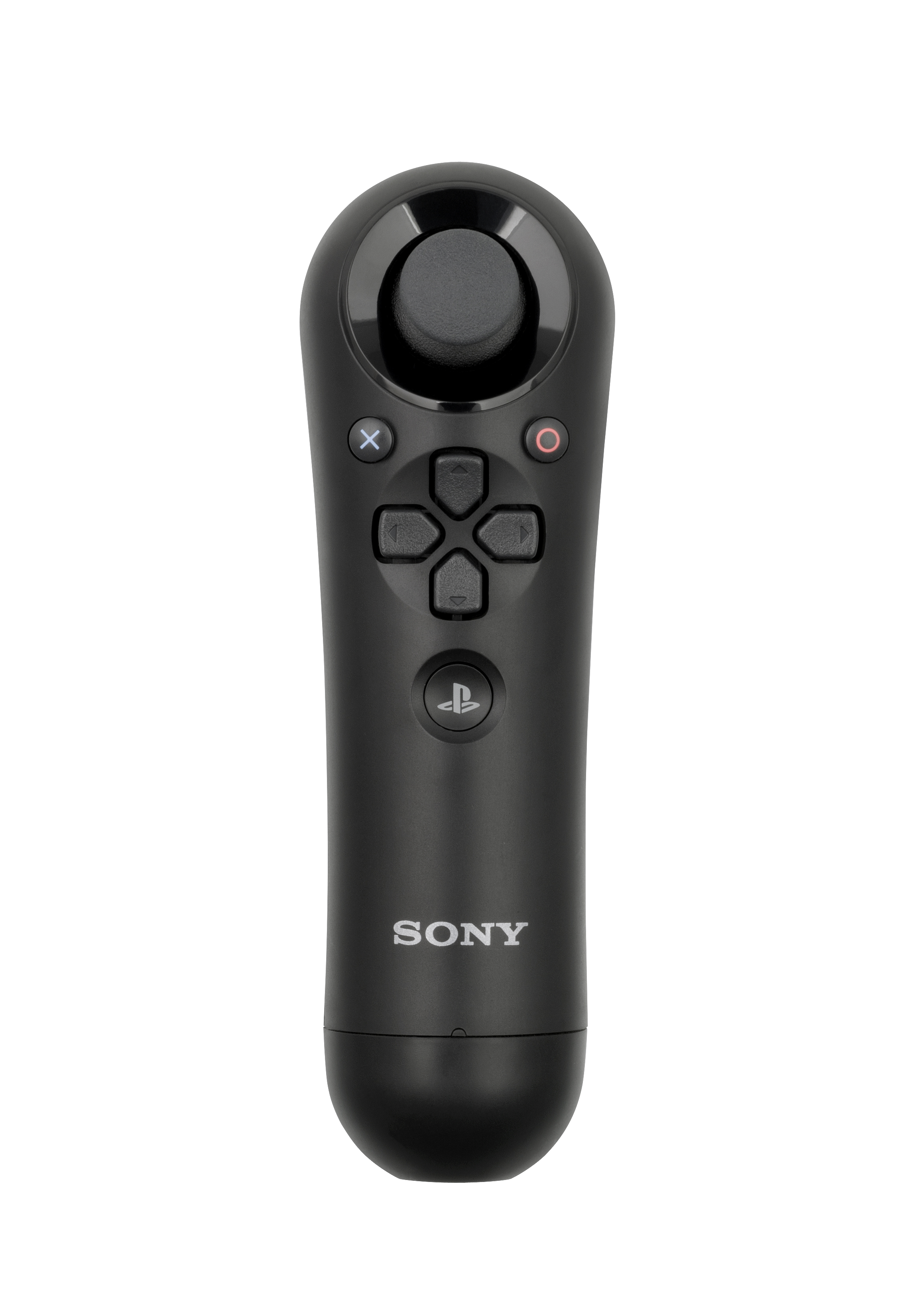 The PlayStation Move Navigator controller. A motion-sensing controller for the PlayStation 3 and PlayStation 4, needs to be used in conjunction with the PS Eye or PS4 Camera.